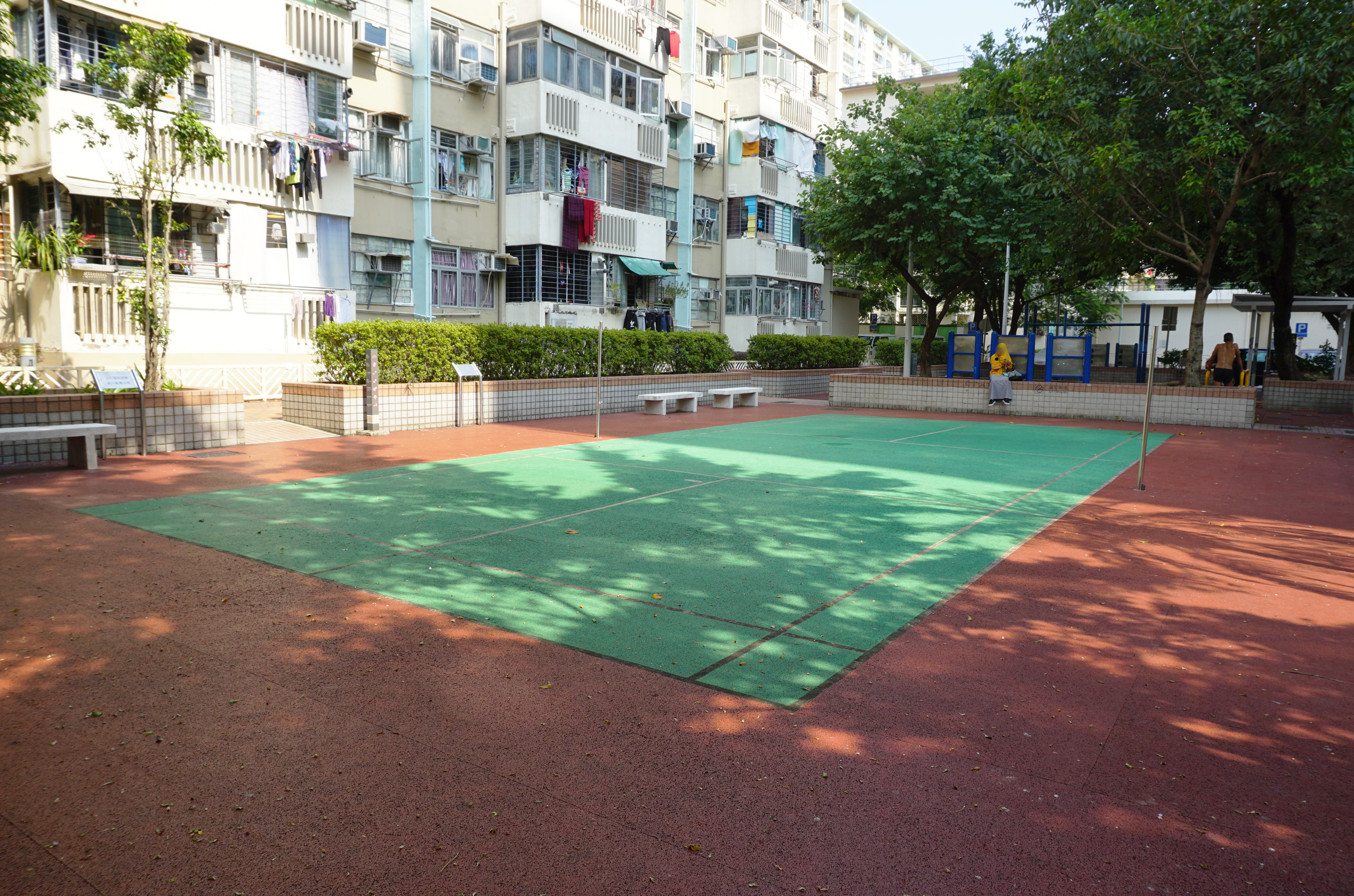 Fuk Loi Estate in Tsuen Wan, Hong Kong.